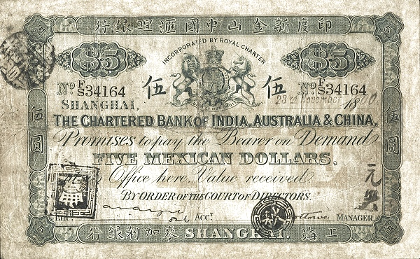 A banknote issued by a foreign bank operating in China, the Chinese government allowed for certain foreign banking corporations to become "note issuing authorities", these banknotes were issued to circulate in China.